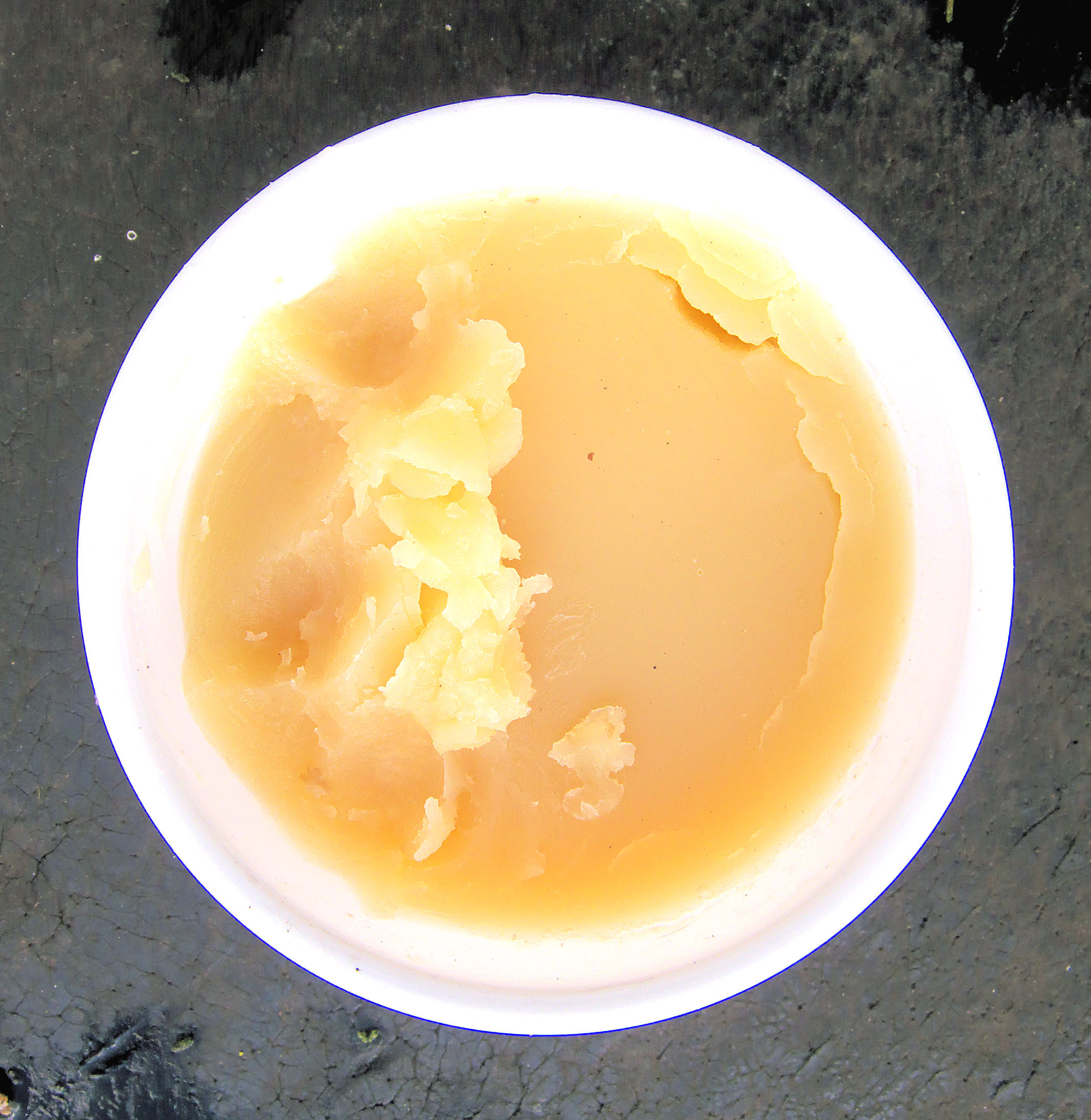 Rendered Horse fat